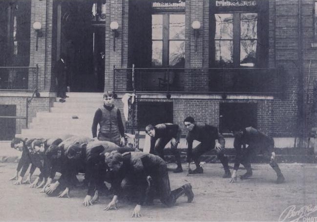 1906 Alabama Crimson Tide football team, posing in the middle of 20th street. Due to age, this photo is believed to be available to public domain. Source: Traditions